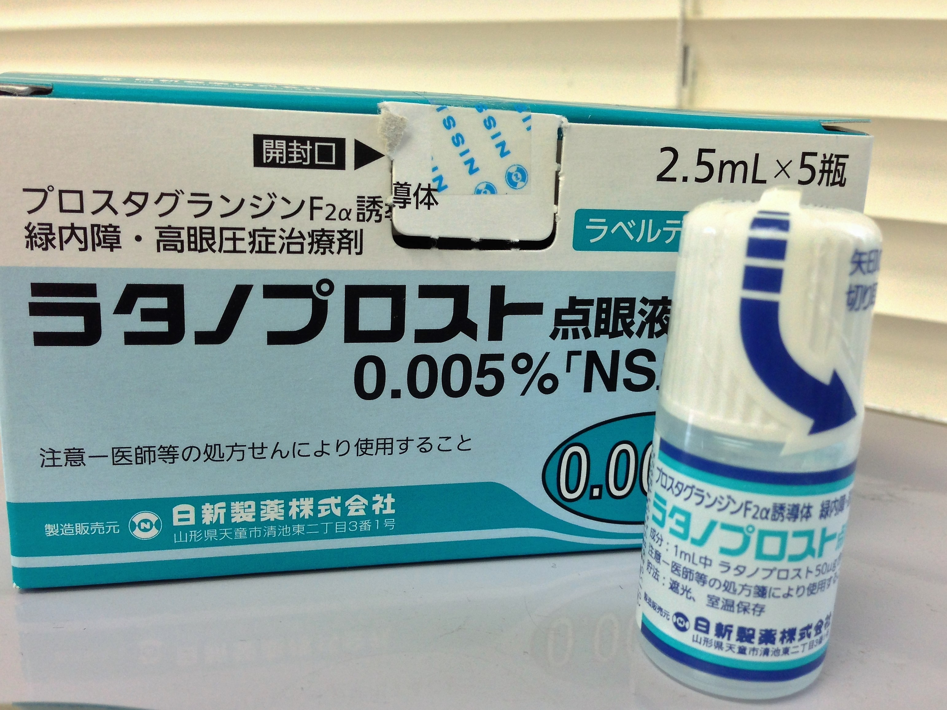 Latanoprost. （prostaglandin F2alpha）,Glaucoma DRUG (JAPAN) 2016